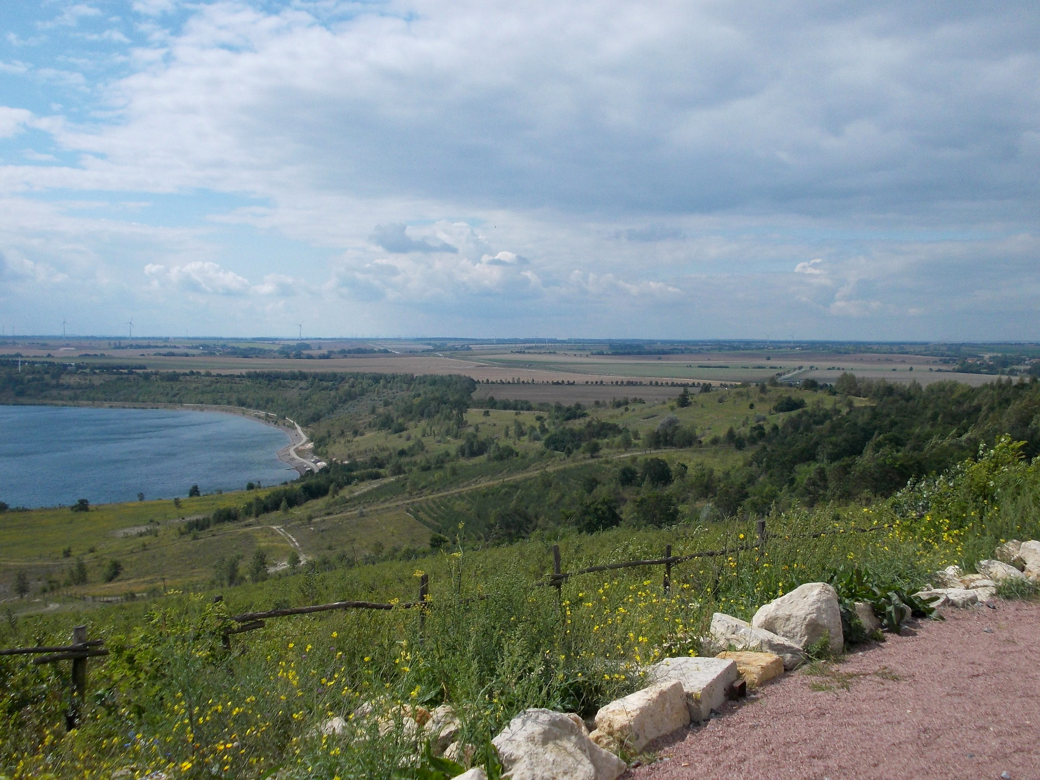 North-western part of Geiseltal Lake (district: Saalekreis, Saxony-Anhalt)